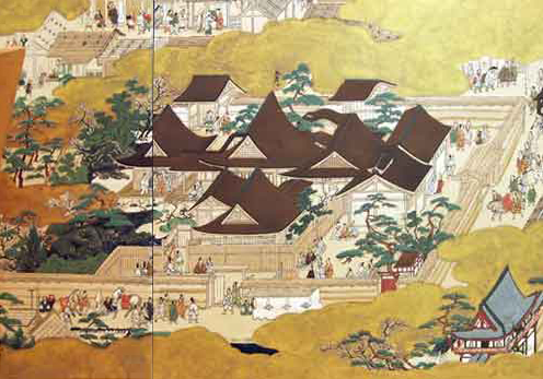 “Hana-no Gosho” (花の御所, Flower Palace) depicted in“Rakuchū-Rakugai Zu Uesugi-bon Tōban”. The ensuing period of Ashikaga rule (1336–1573) was called Muromachi from the district of Kyoto in which its headquarters – the Hana-no-gosho – were located by third shōgun Ashikaga Yoshimitsu in 1378.